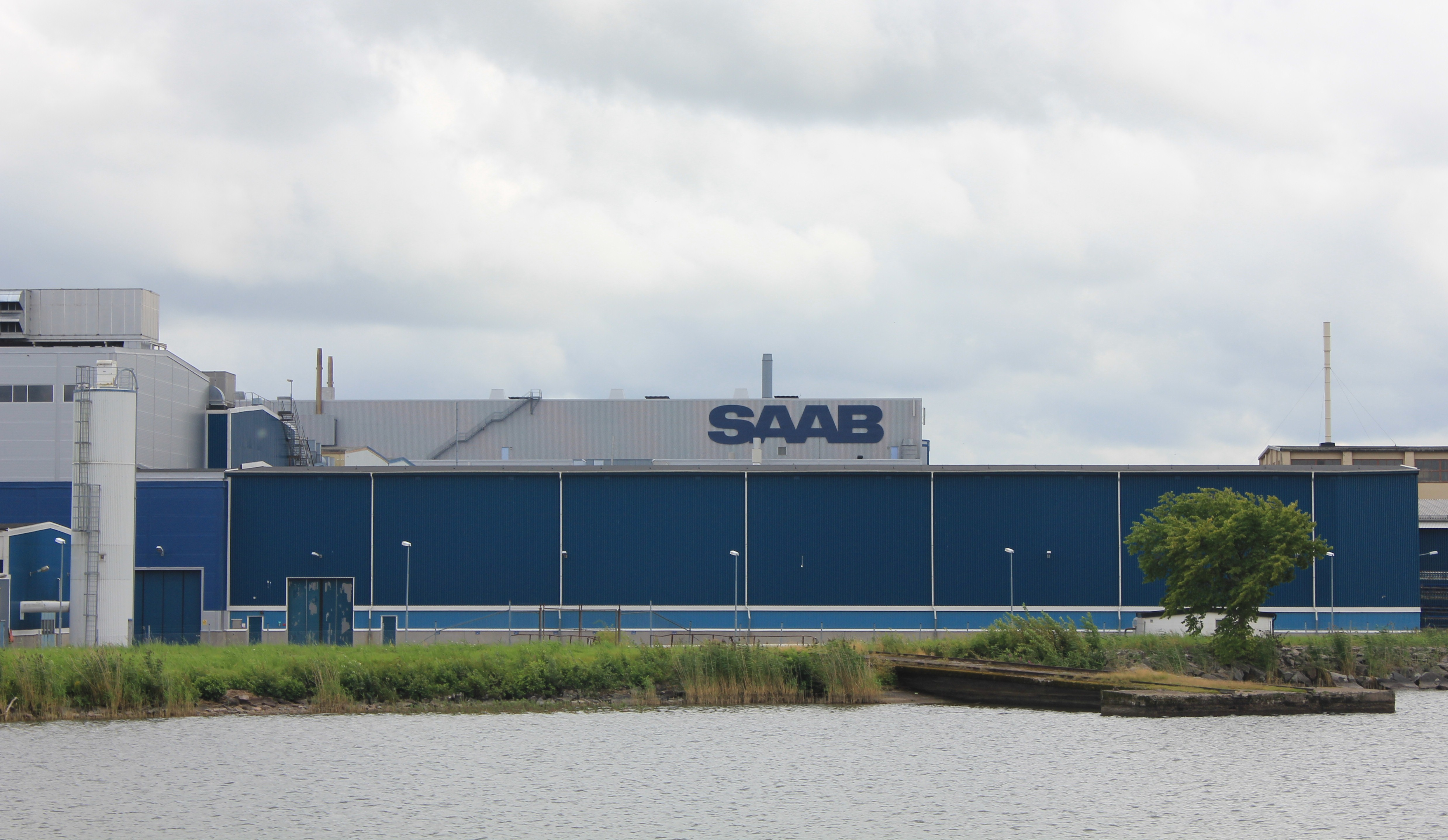 SAAB factory in Sweden.